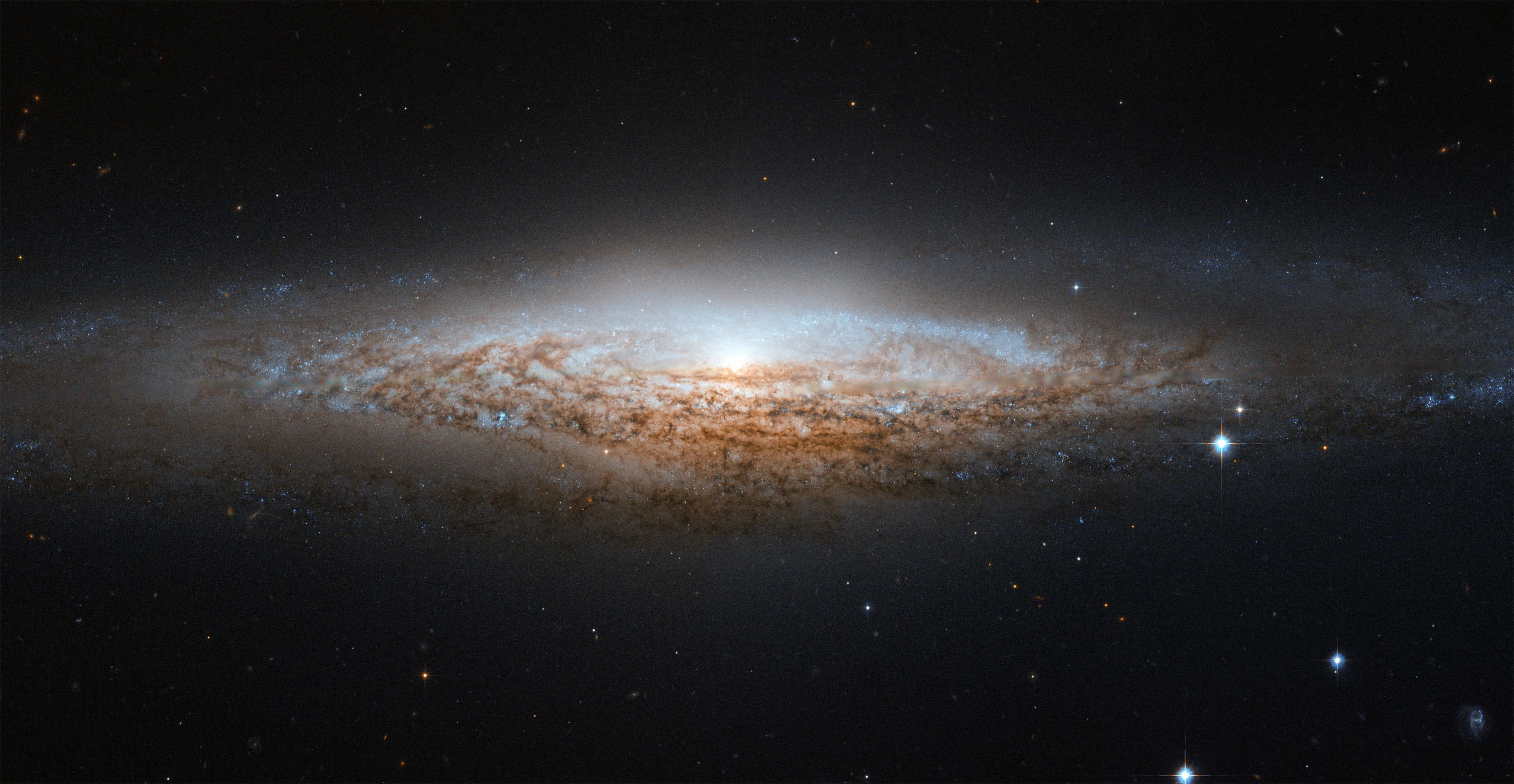 The NASA Hubble Space Telescope has spotted the "UFO Galaxy." NGC 2683 is a spiral galaxy seen almost edge-on, giving it the shape of a classic science fiction spaceship. This is why the astronomers at the Astronaut Memorial Planetarium and Observatory, Cocoa, Fla., gave it this attention-grabbing nickname. While a bird's eye view lets us see the detailed structure of a galaxy (such as this Hubble image of a barred spiral), a side-on view has its own perks. In particular, it gives astronomers a great opportunity to see the delicate dusty lanes of the spiral arms silhouetted against the golden haze of the galaxy’s core. In addition, brilliant clusters of young blue stars shine scattered throughout the disc, mapping the galaxy’s star-forming regions. Perhaps surprisingly, side-on views of galaxies like this one do not prevent astronomers from deducing their structures. Studies of the properties of the light coming from NGC 2683 suggest that this is a barred spiral galaxy, even though the angle we see it at does not let us see this directly. This image is produced from two adjacent fields observed in visible and infrared light by Hubble’s Advanced Camera for Surveys. A narrow strip which appears slightly blurred and crosses most the image horizontally is a result of a gap between Hubble’s detectors. This strip has been patched using images from observations of the galaxy made by ground-based telescopes, which show significantly less detail. The field of view is approximately 6.5 by 3.3 arcminutes.